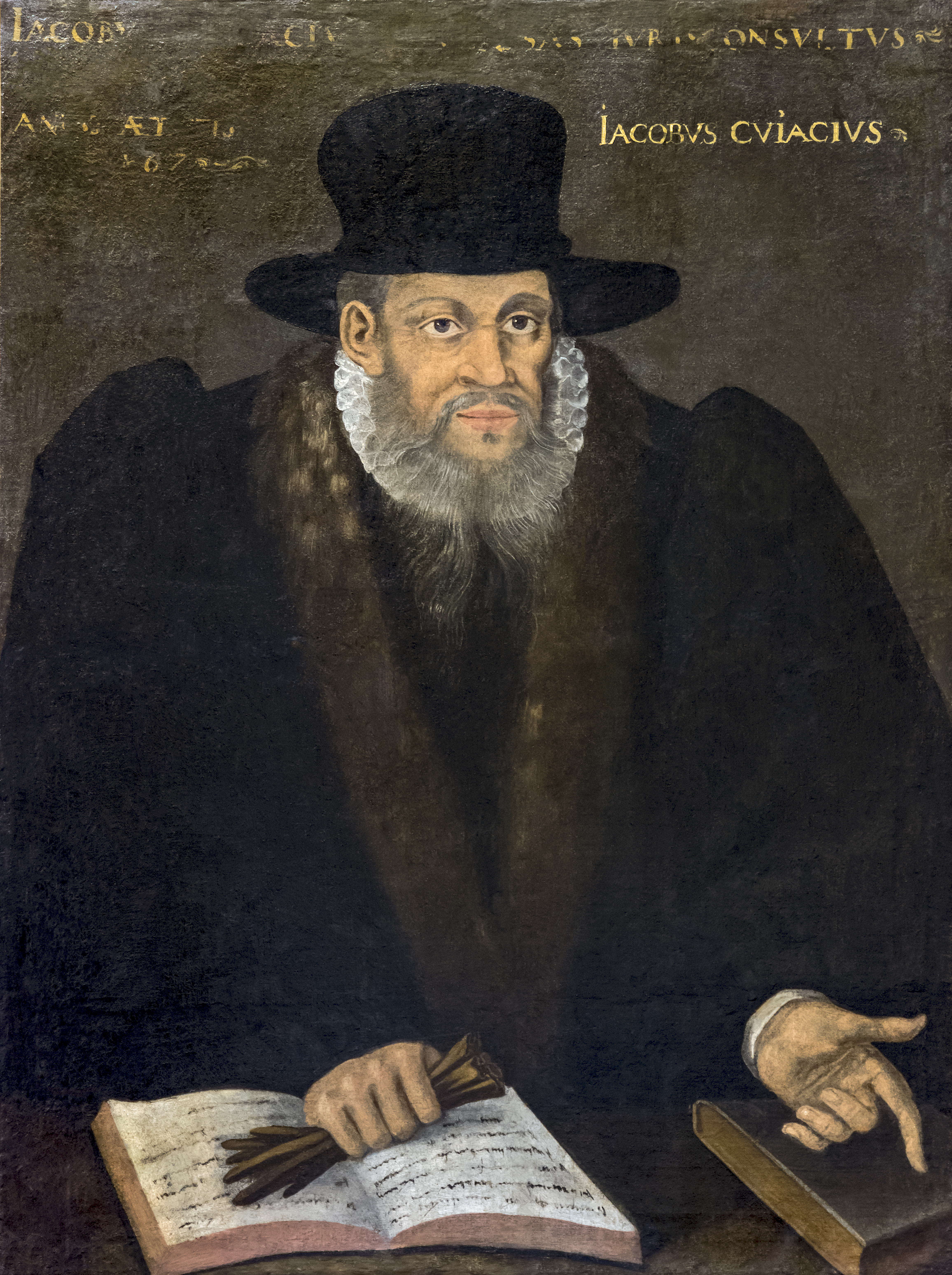 Depicted person: Jacques Cujas – French legal expert